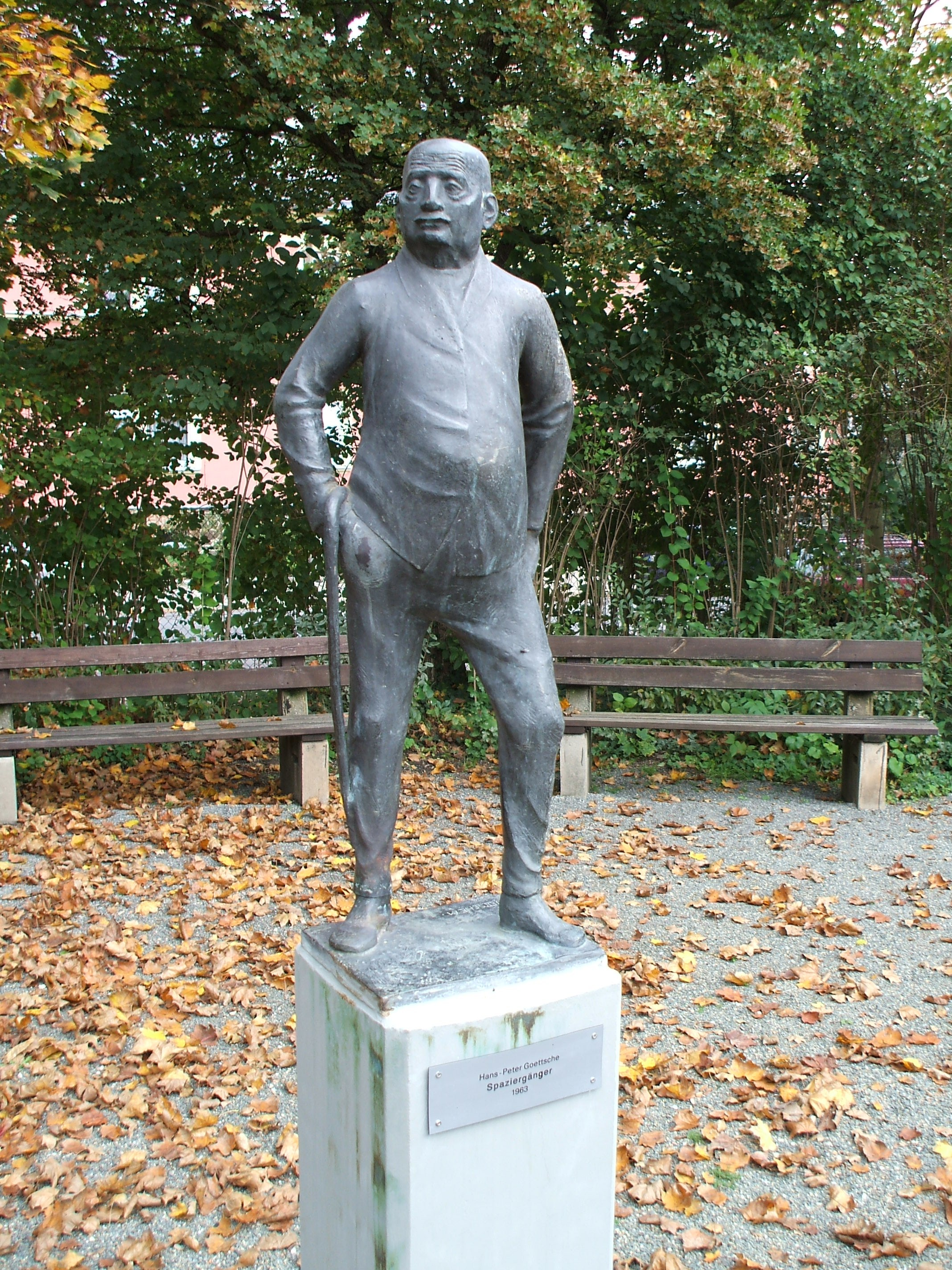 Hans-Peter Goettsche, Spaziergänger, 1963 (Dahliengarten, Gera, Germany)